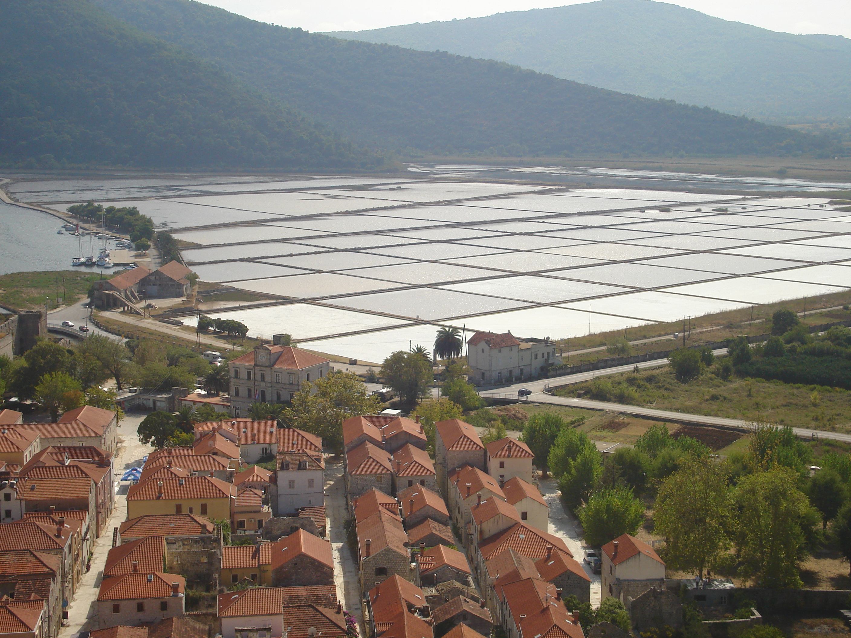 Picture of salt evaporation ponds in Ston, Croatia